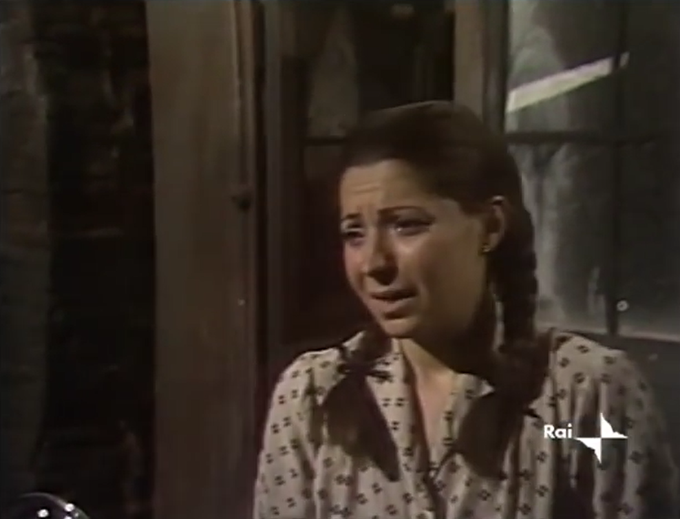 Rosalinda Galli in a still from the TV miniseries Vino e pane (1973)